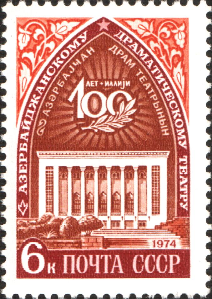 USSR stamp